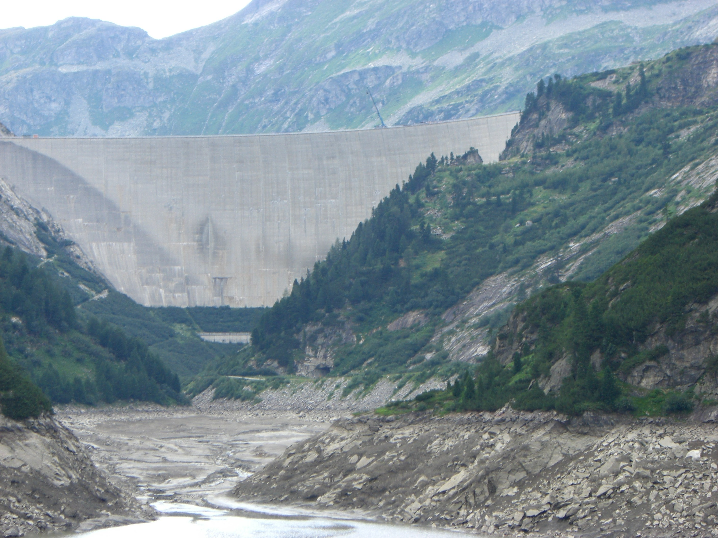 Kölnbreinsperre seen from Galgenbichlspeicher reservoir